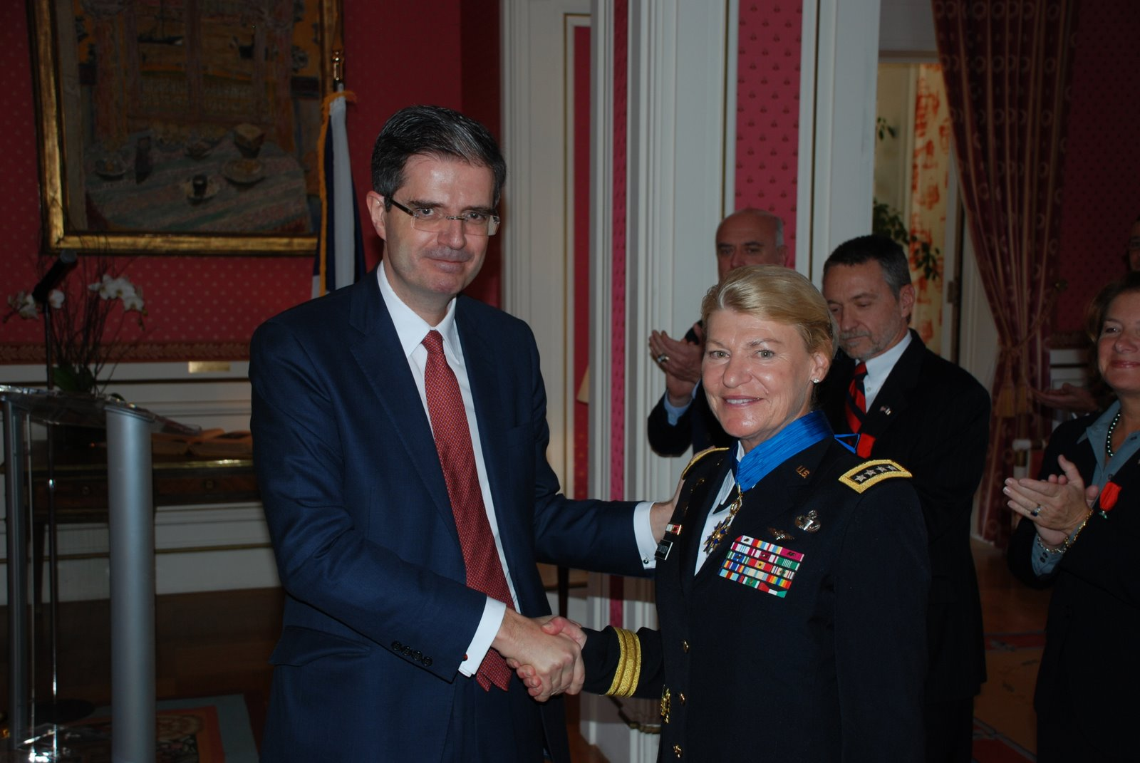 French ambassador François Delattre congratulates General Dunwoody